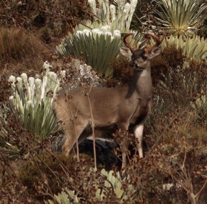 White-tailed deer (probably Odocoileus lasiotis), in the Mucubají paramo, Mérida state, Venezuela.